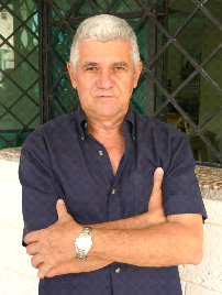 The cuban writer Roberto Manzano